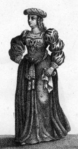 Clementia of Zahringen